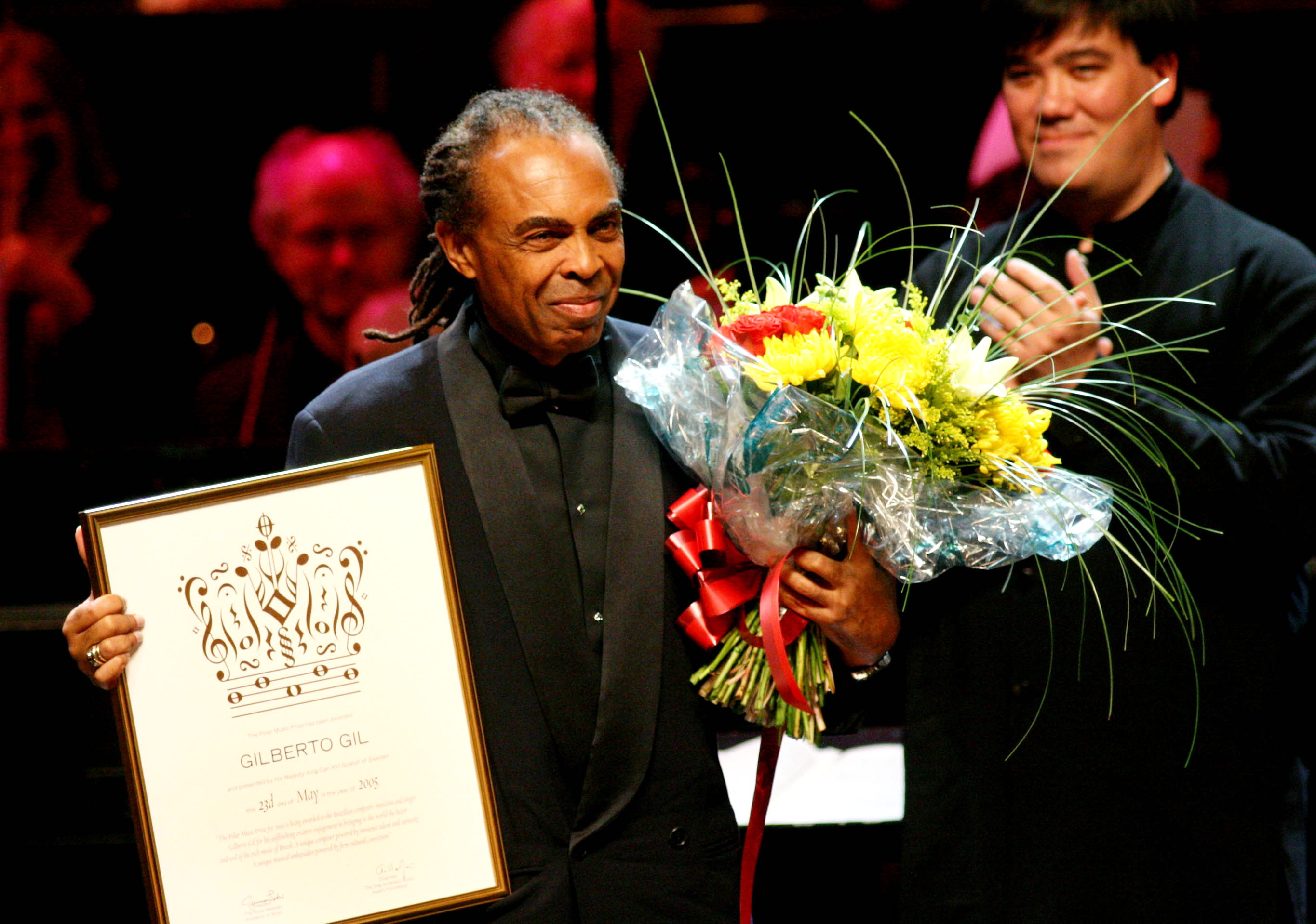 Gilberto Gil receives the 2005 Polar Music Prize at the Stockholm Concert Hall.